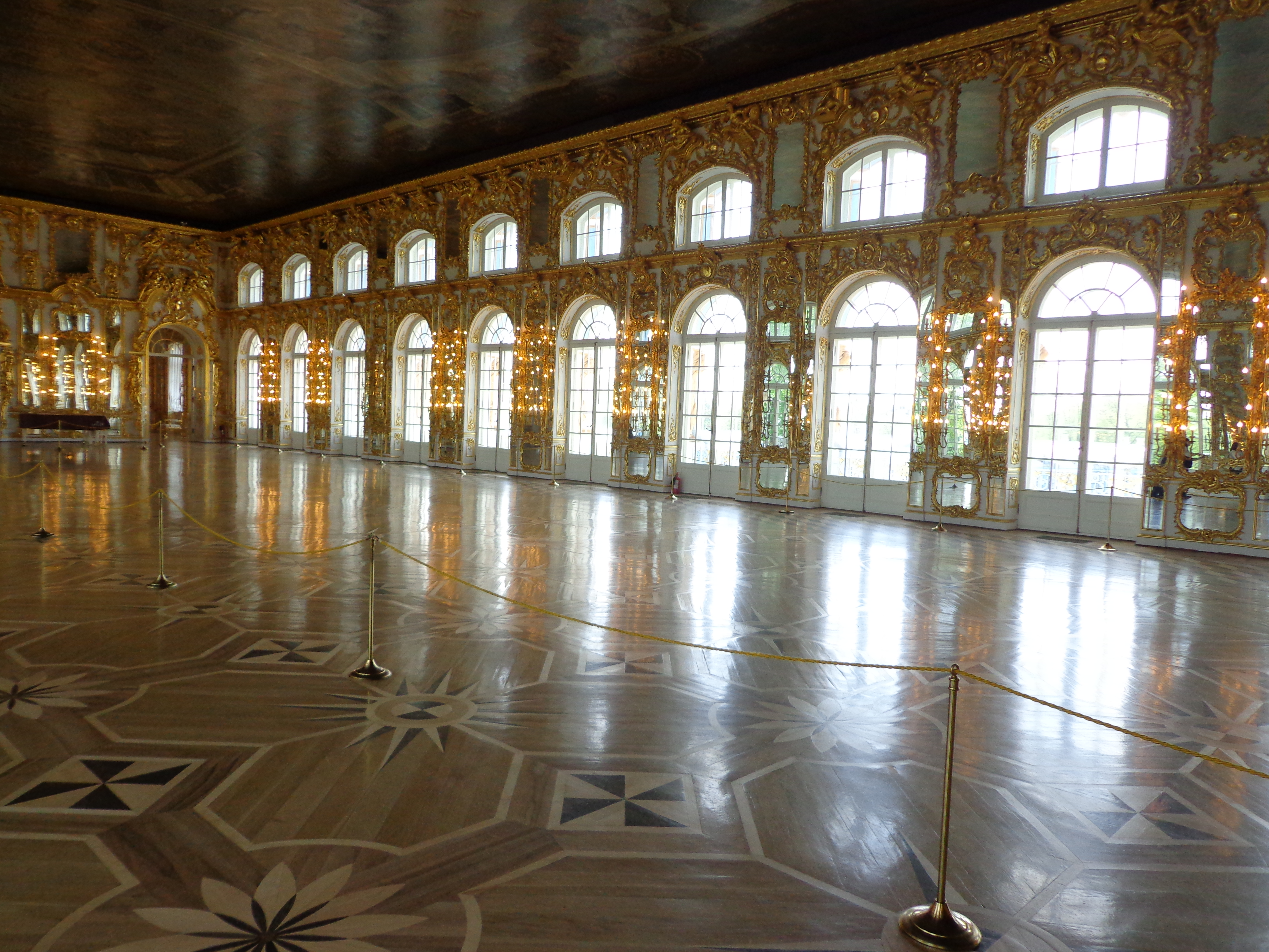 Great Hall of Catherine Palace, Pushkin (Tsarskoye Selo)